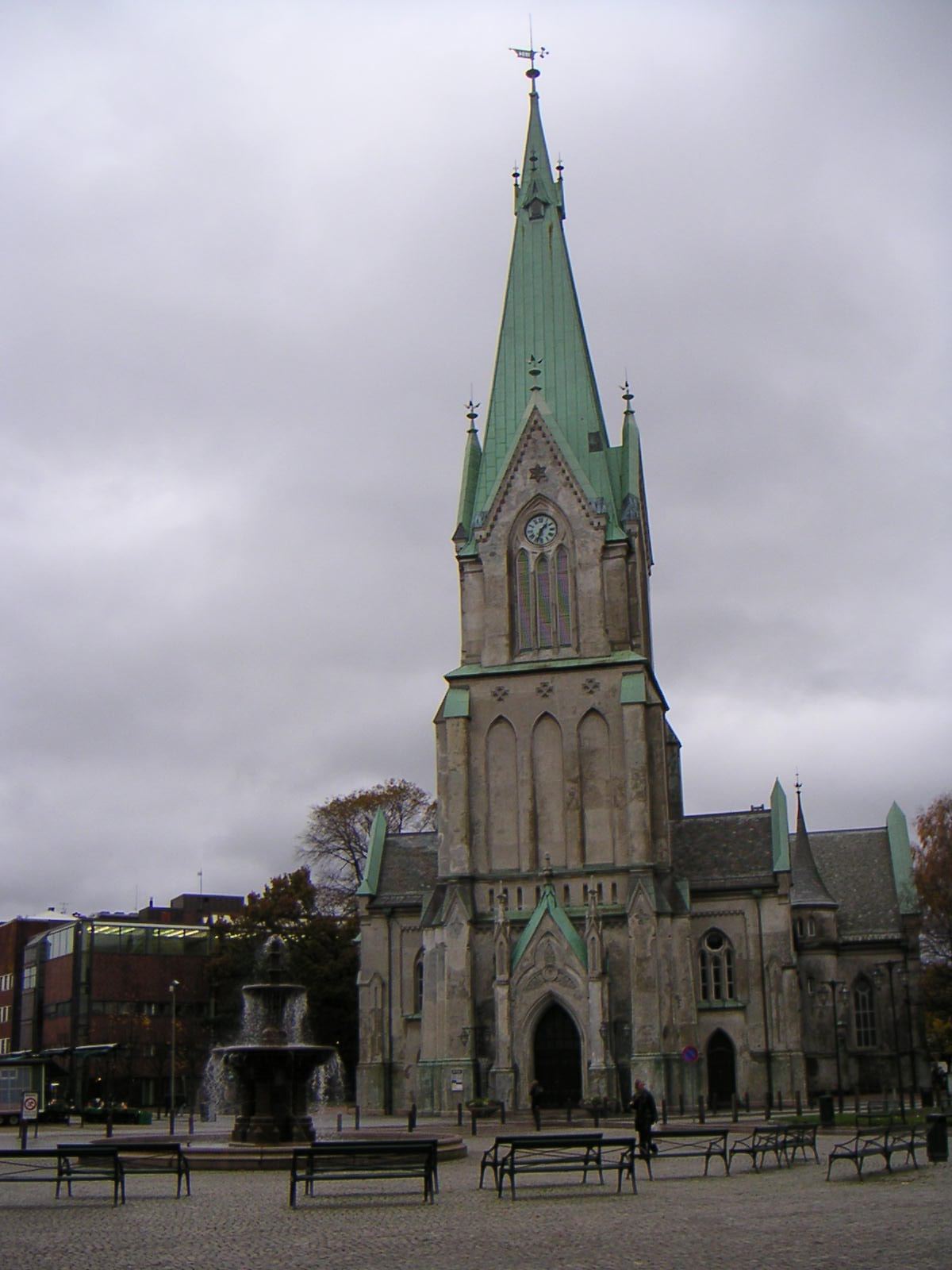 church in Kristiansand, Sweden